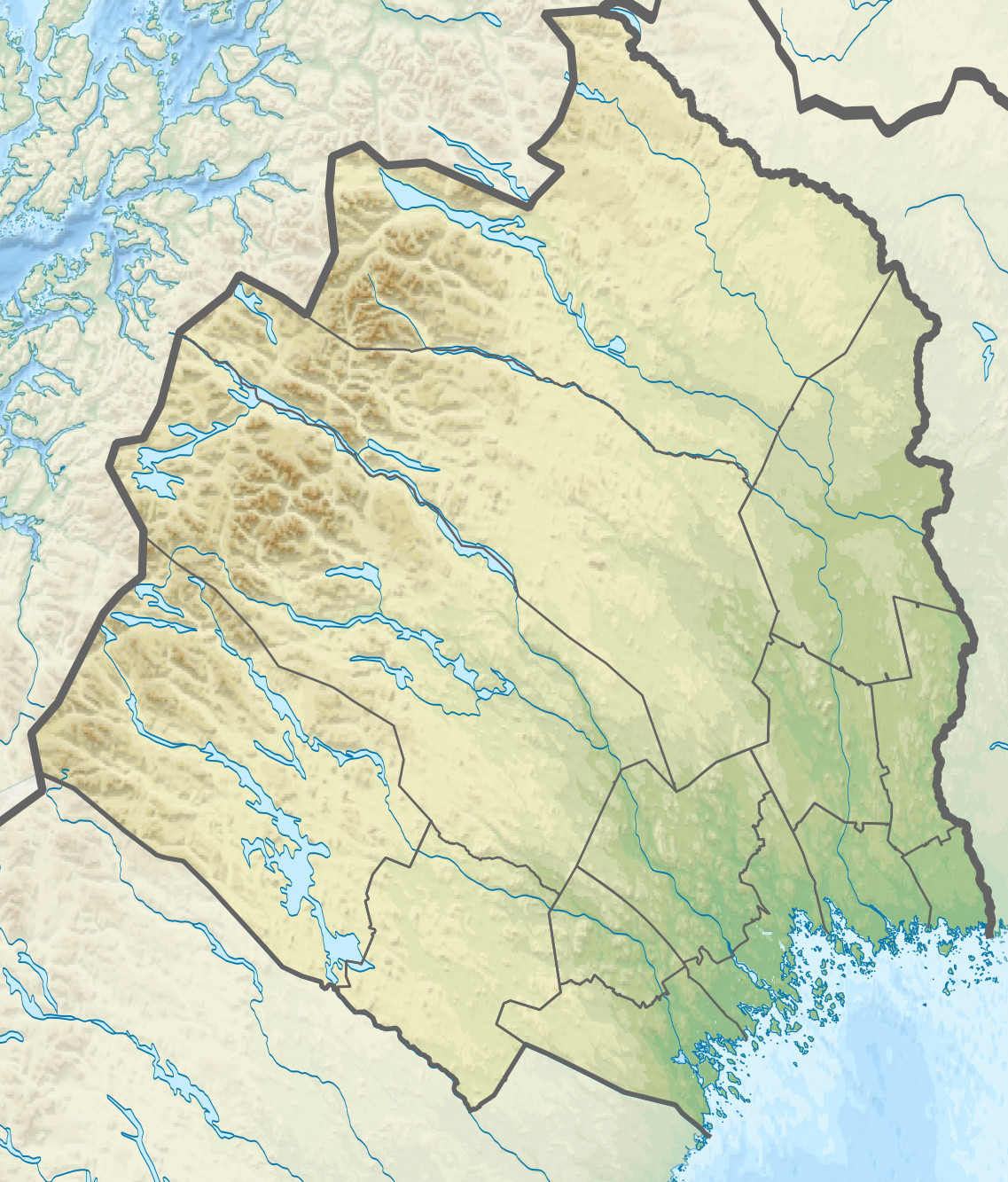 Topographic location map of Norrbotten county in Sweden Equirectangular projection, N/S stretching 257 %. Geographic limits of the map: N: 69.10° N S: 64.90° N W: 15.10° E E: 24.30° E